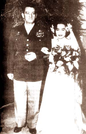 1947 Wedding photo of Chennault in Shanghai. 陈香梅与陈纳德